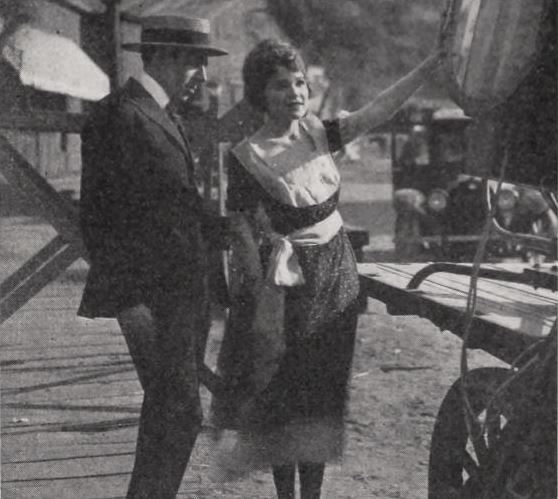 Actress Betty Ross Clarke with her husband British-born film director Arthur Greville Collins (listed in the caption as Lt. Arthur Collins) inspect a searchlight on the set of the American western film The Fox (1921), on page 64 of the November 5, 1921 Exhibitors Herald.